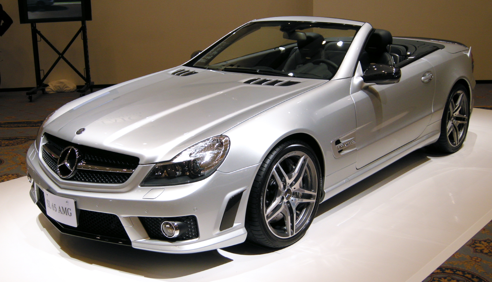 2008 Mercedes-Benz R230 SL65 AMG Facelift